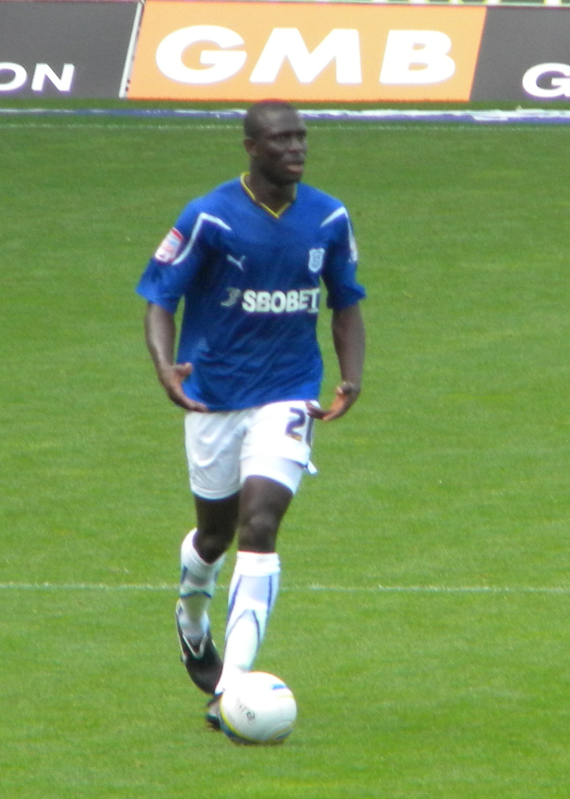 Seyi Olofinjana playing for Cardiff City against Hull City